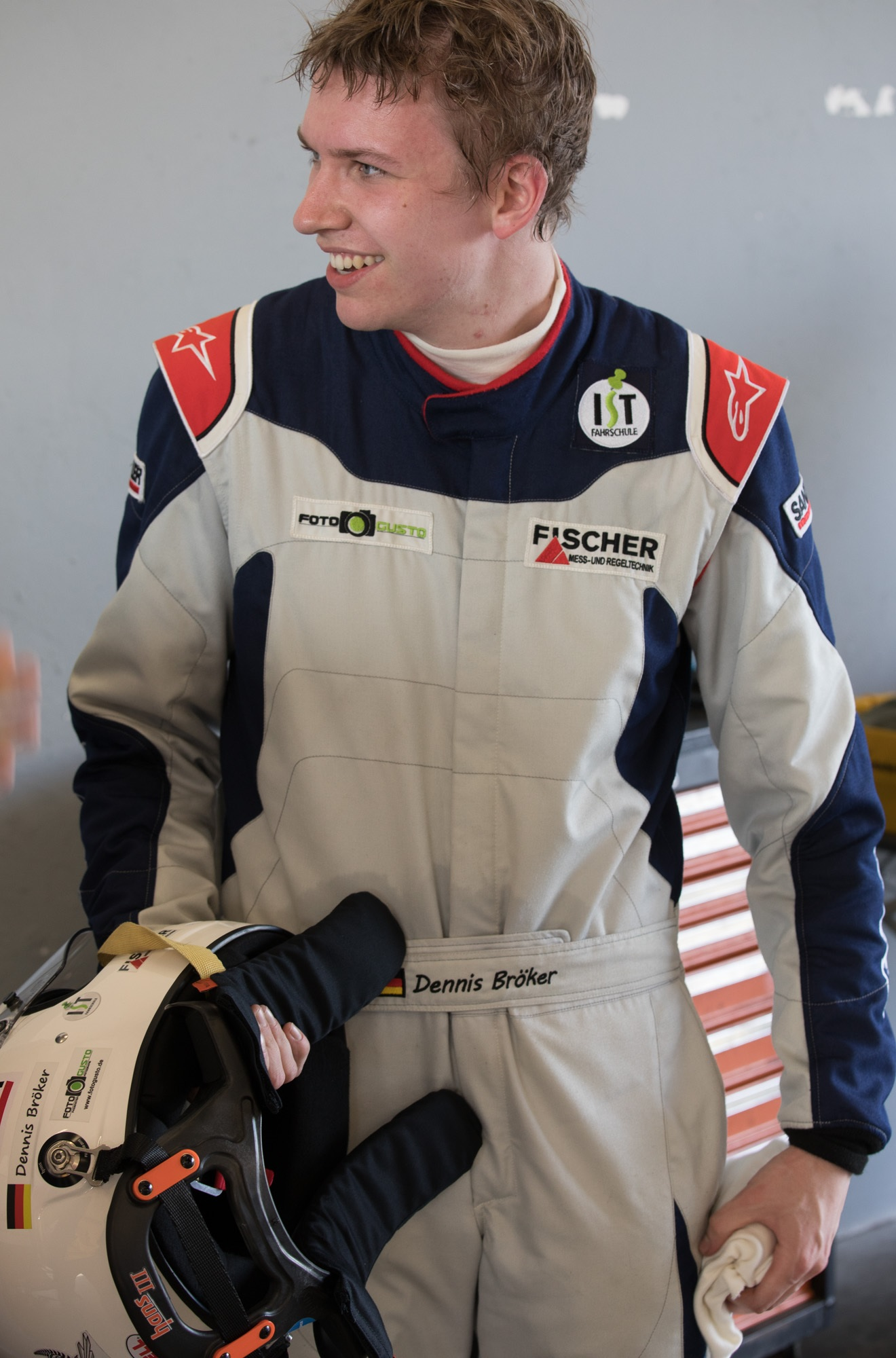 Dennis Bröker after race in Oschersleben 2017